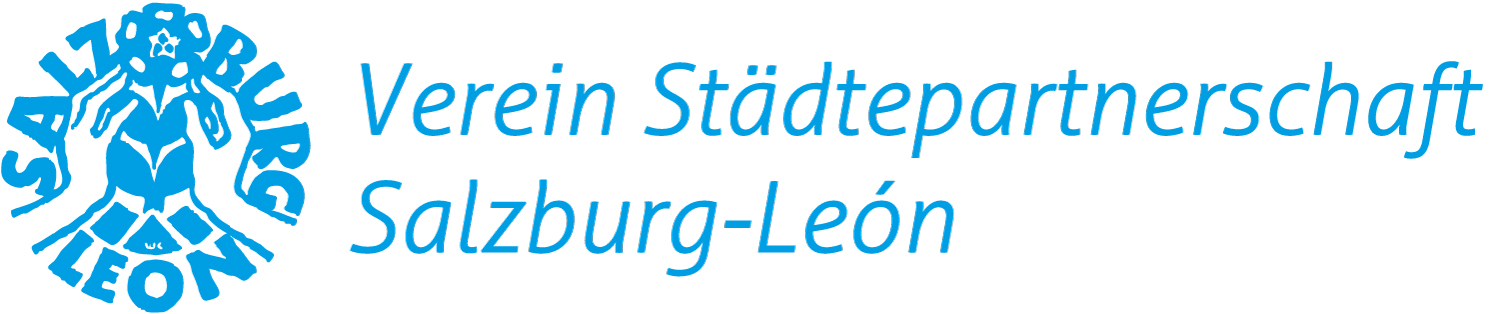 Logo of the town twinning Salzburg-León